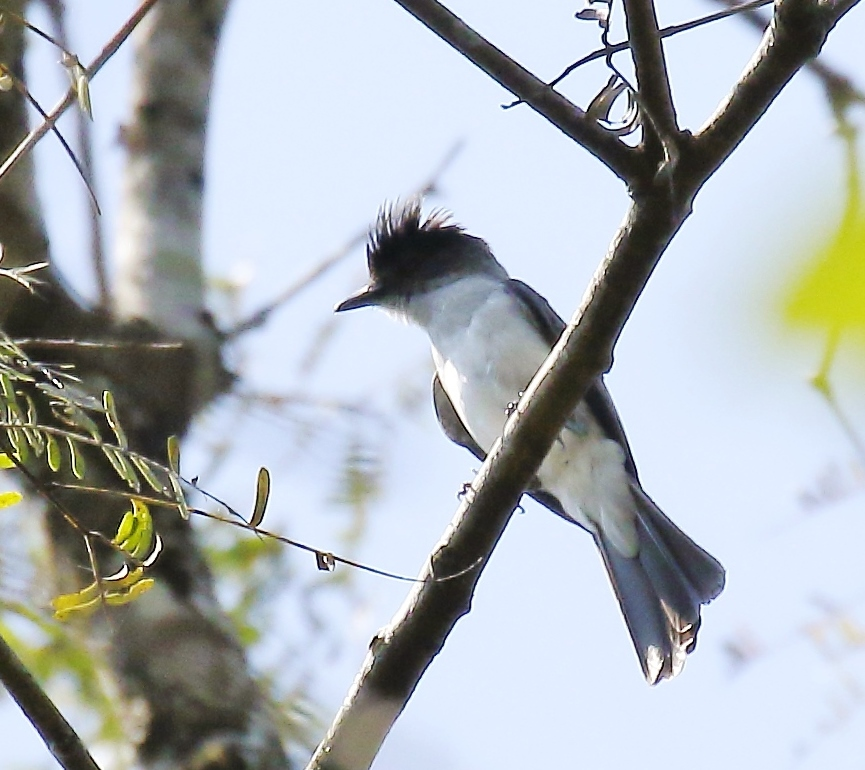 White-rumped sirystes at Rio Branco, Acre, Brazil